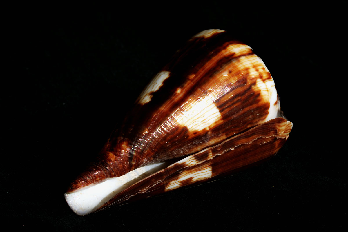 A Conus guinaicus collected near Toliara (Tulear), Madagascar. Note : this is unlikely to be C. guinaicus as this species is only found in the Atlantic Ocean along Senegal.